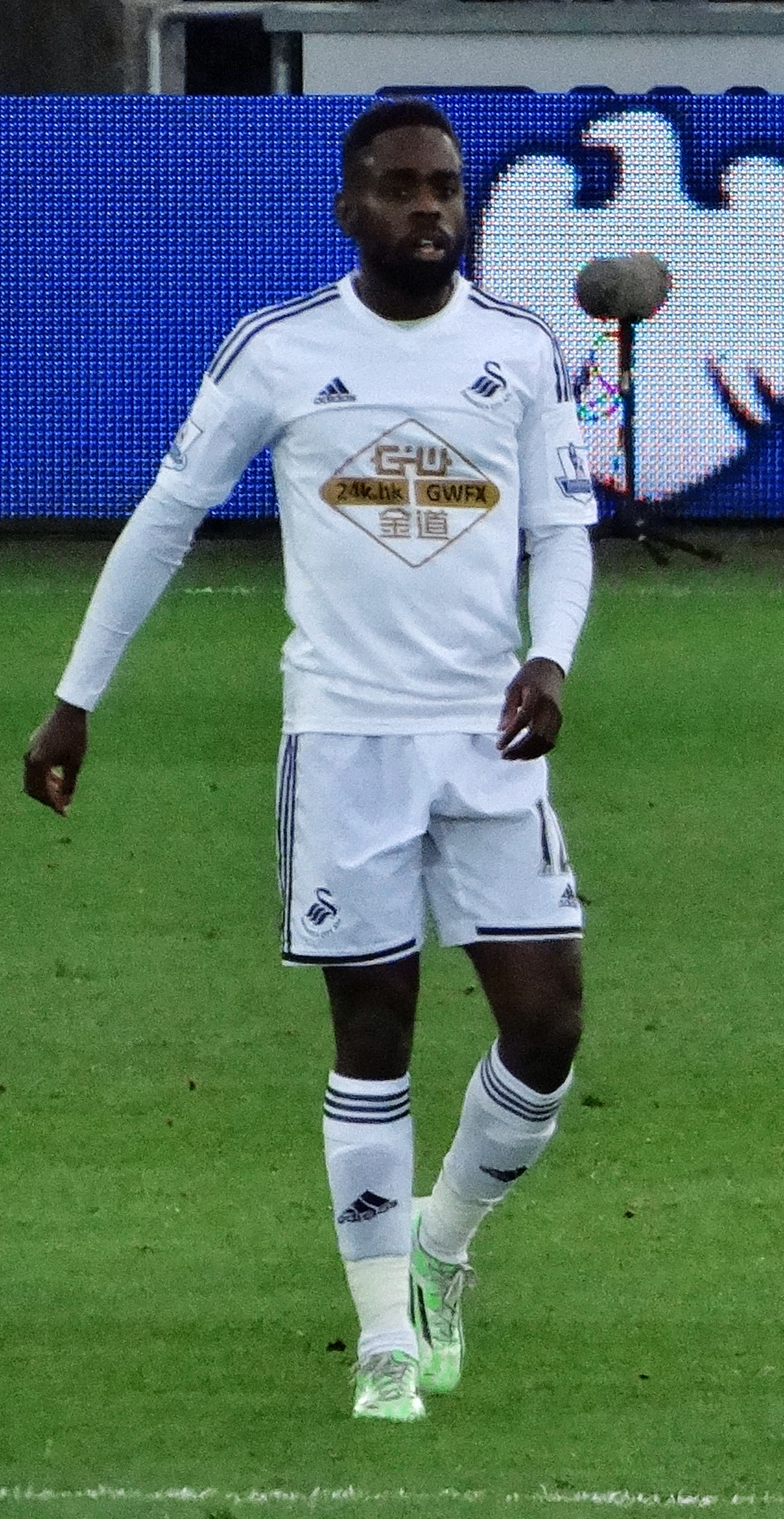 Nathan Dyer playing for Swansea City in 2015.